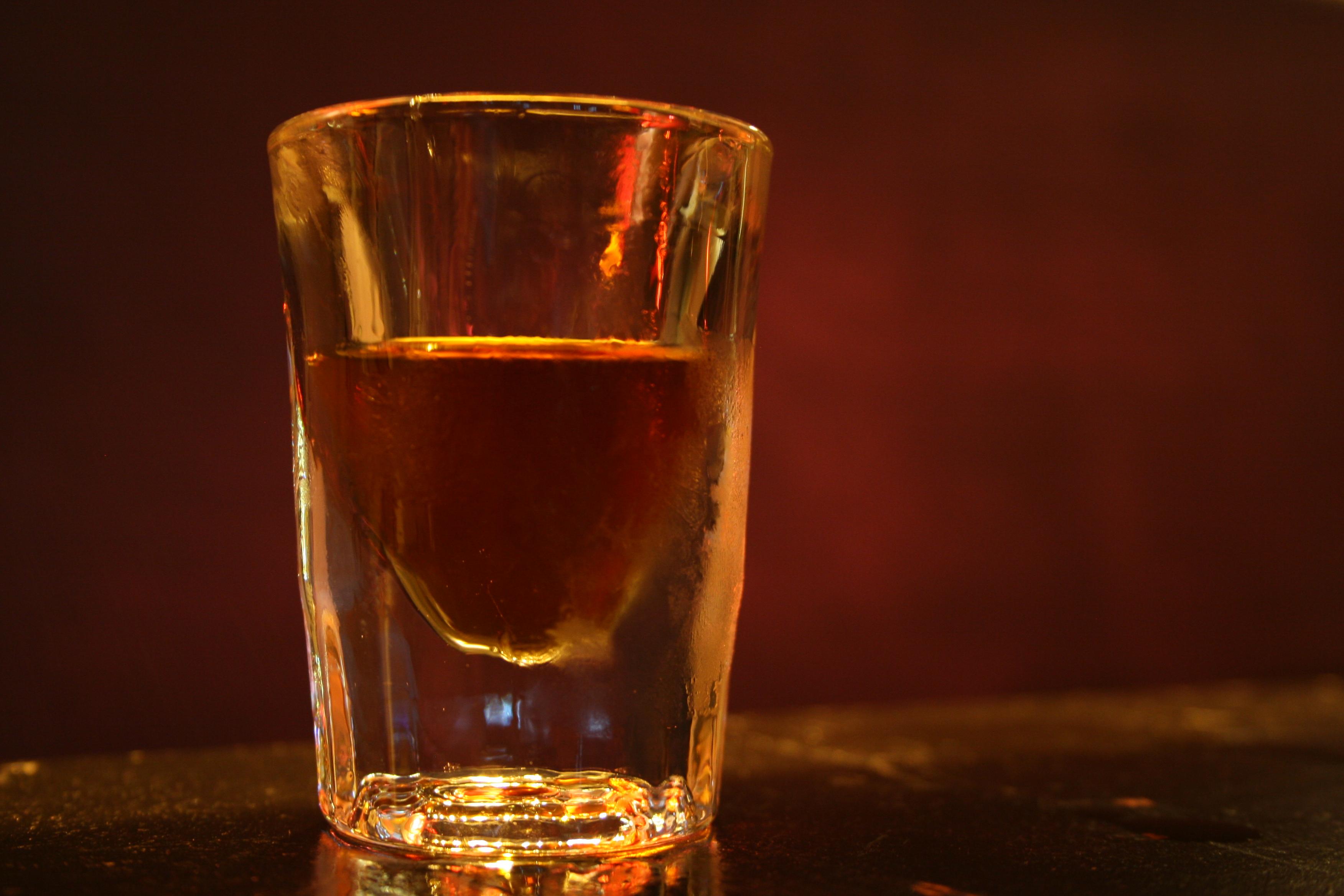 Ratzeputz in a glass